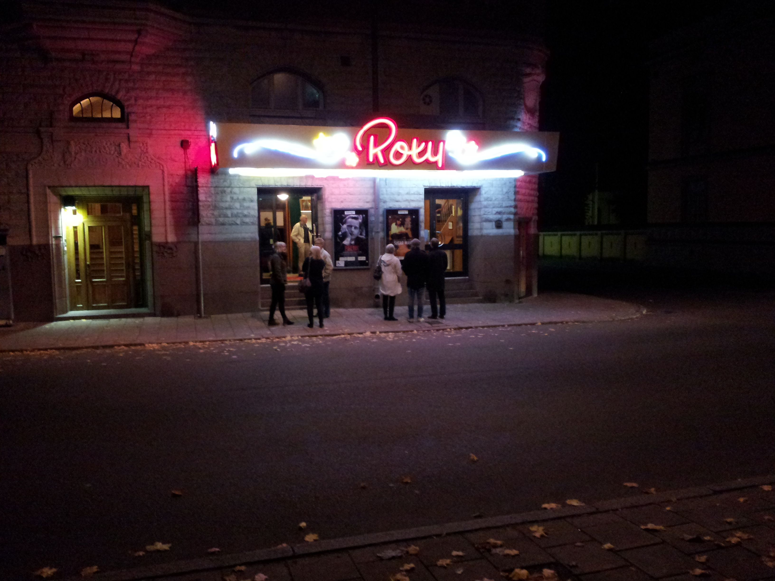 The cinema Roxy in Örebro, Sweden